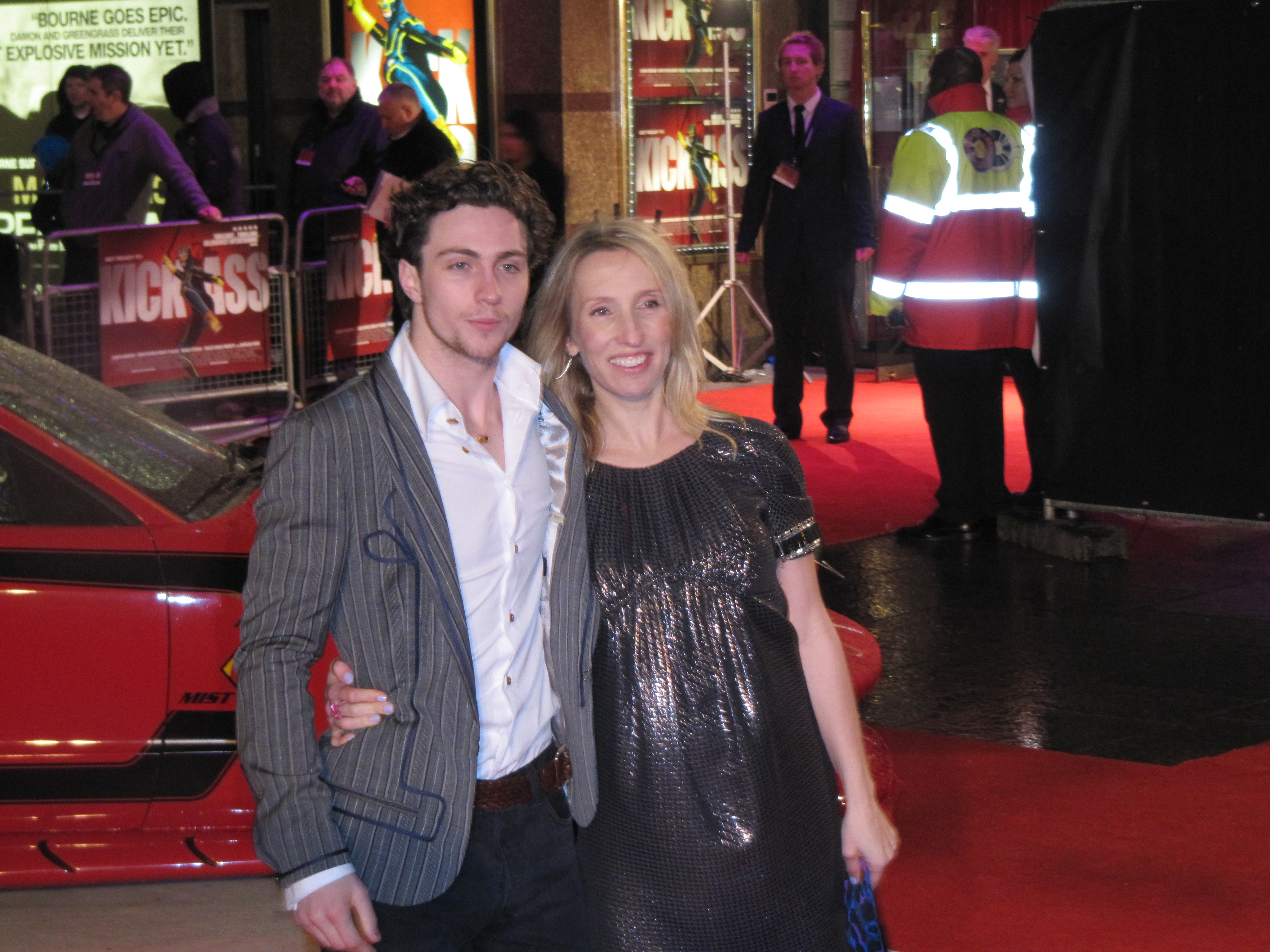 Aaron Johnson and Sam Taylor-Wood at the Kick-Ass Premiere in London.